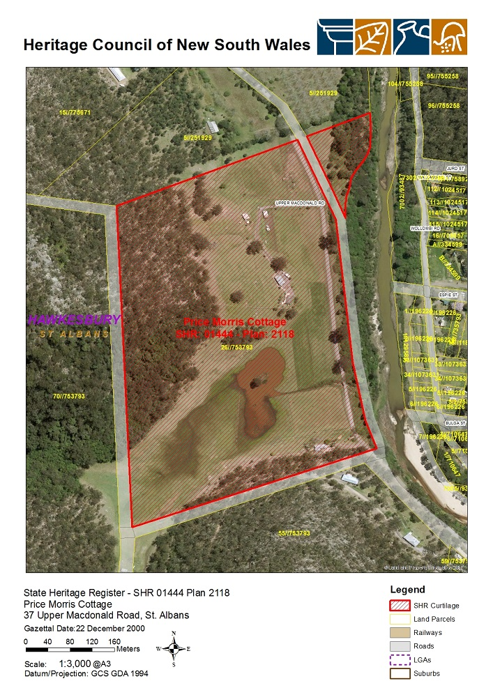 Price Morris Cottage: SHR Plan 2118